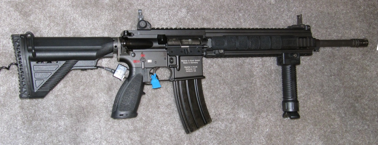 M27 Infantry Automatic Rifle shown at the SHOT SHOW